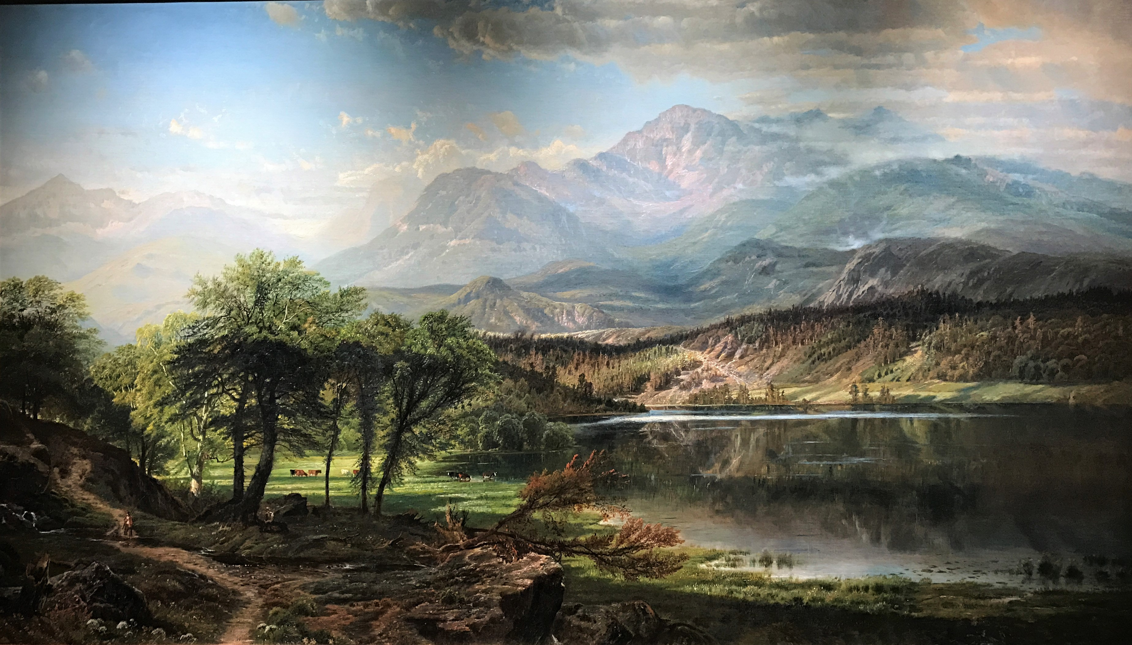 Painting by Edmund Darch Lewis c. 1865. Oil on canvas.